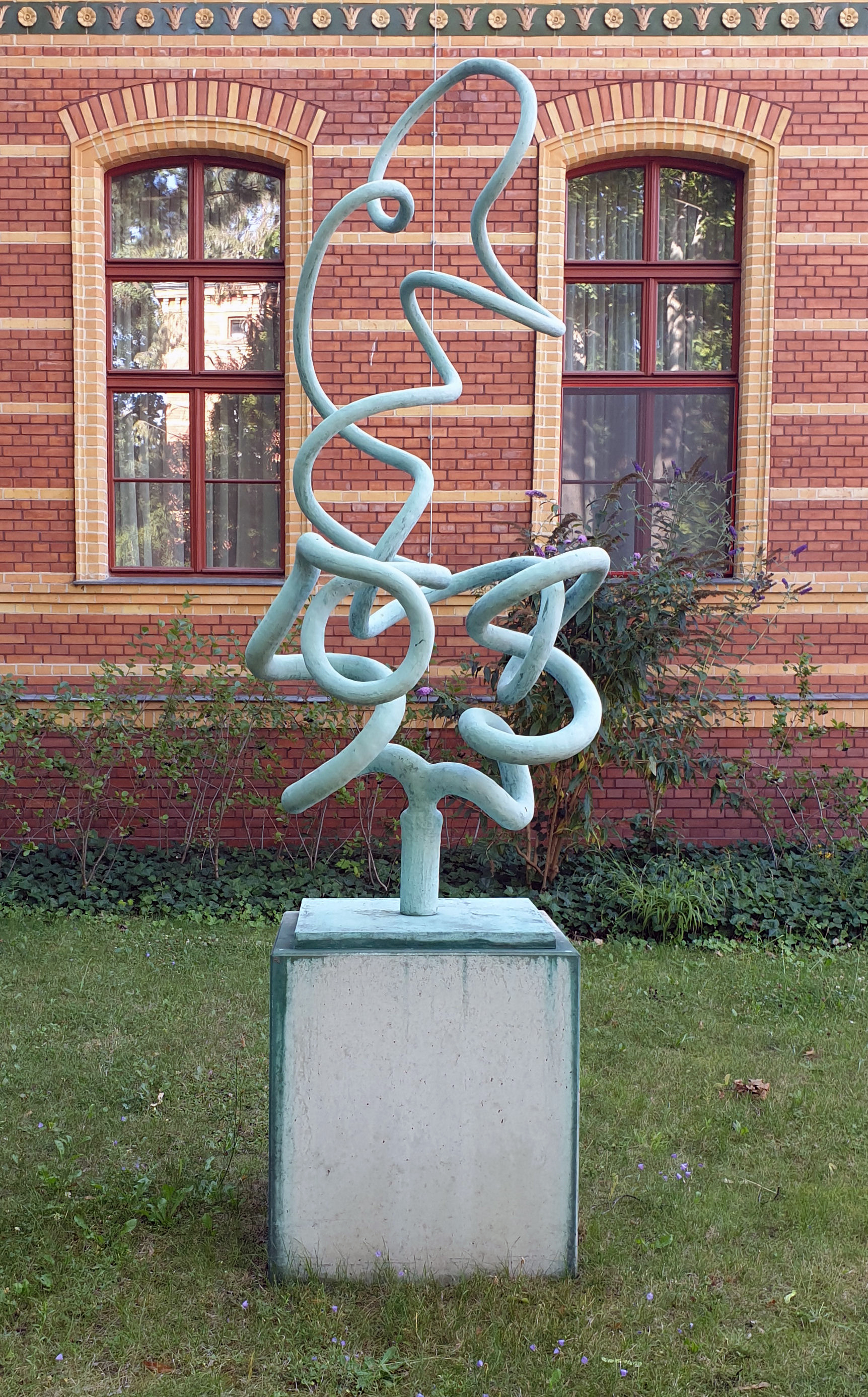 Sculpture,"Blumenstillleben" by Anton Henning, 2006, Wenckebachstraße 23, Berlin-Tempelhof, Germany